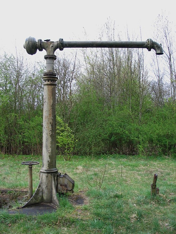 Water crane in Białowieża Towarowa train station